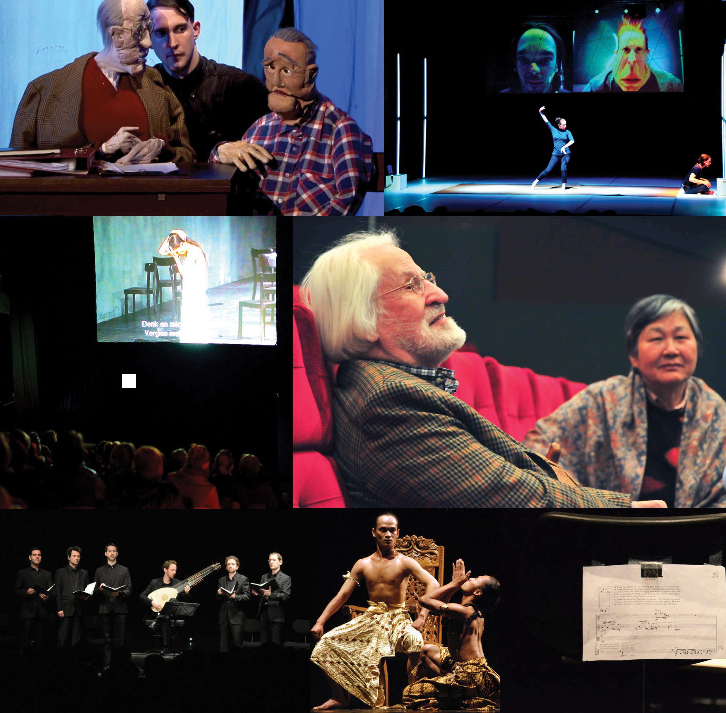 Some impressions of the Easter Festival Tyrol editions.